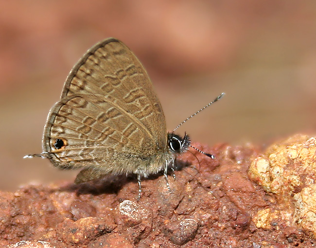 Common Lineblue Prosotas nora at Ananthagiri Hills, in Rangareddy district of Andhra Pradesh, India.